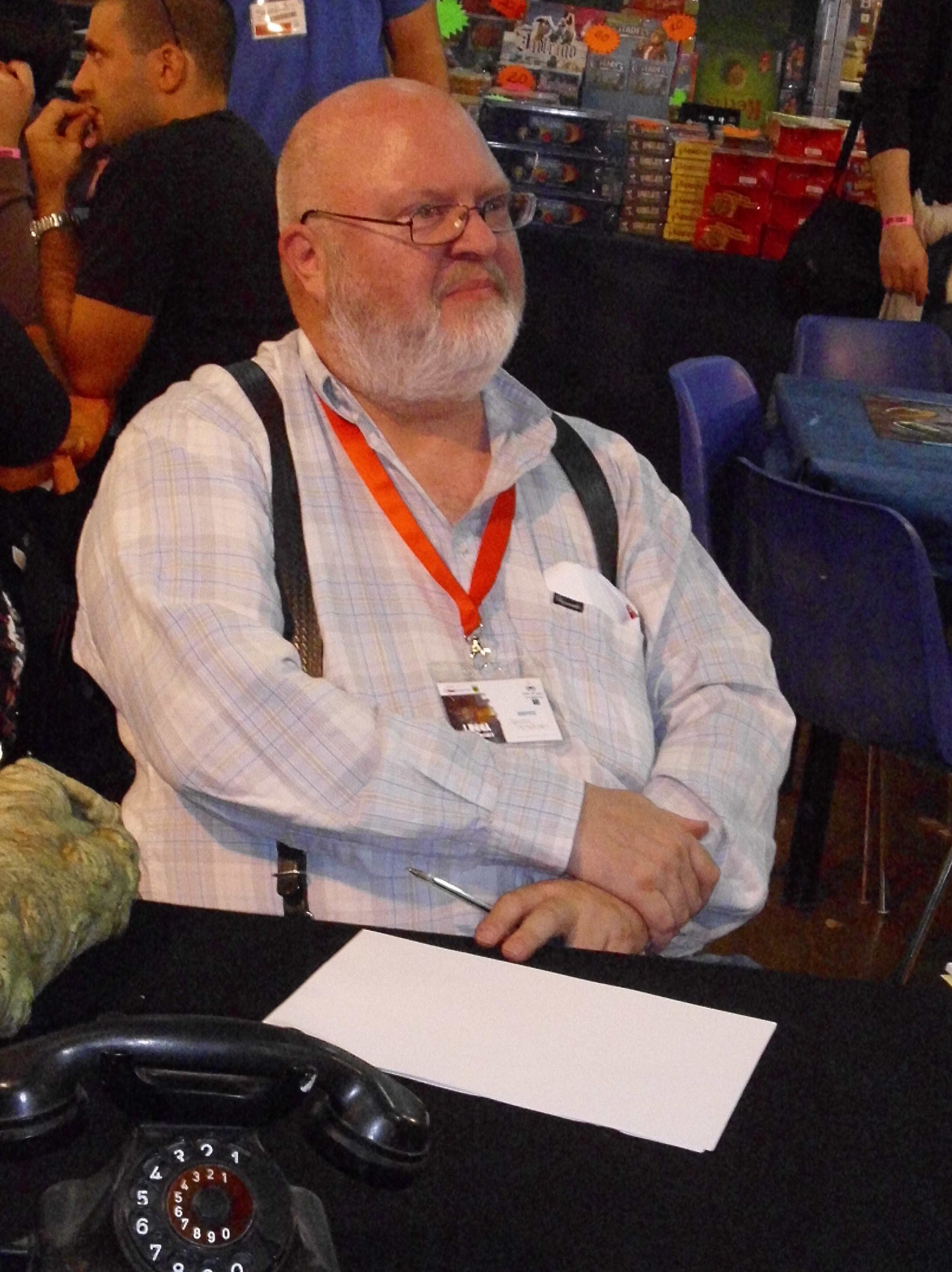 Game designer Sandy Petersen ꆇꉙ: L'autore di giochi Sandy Petersen, a Lucca Comics&Games 2011